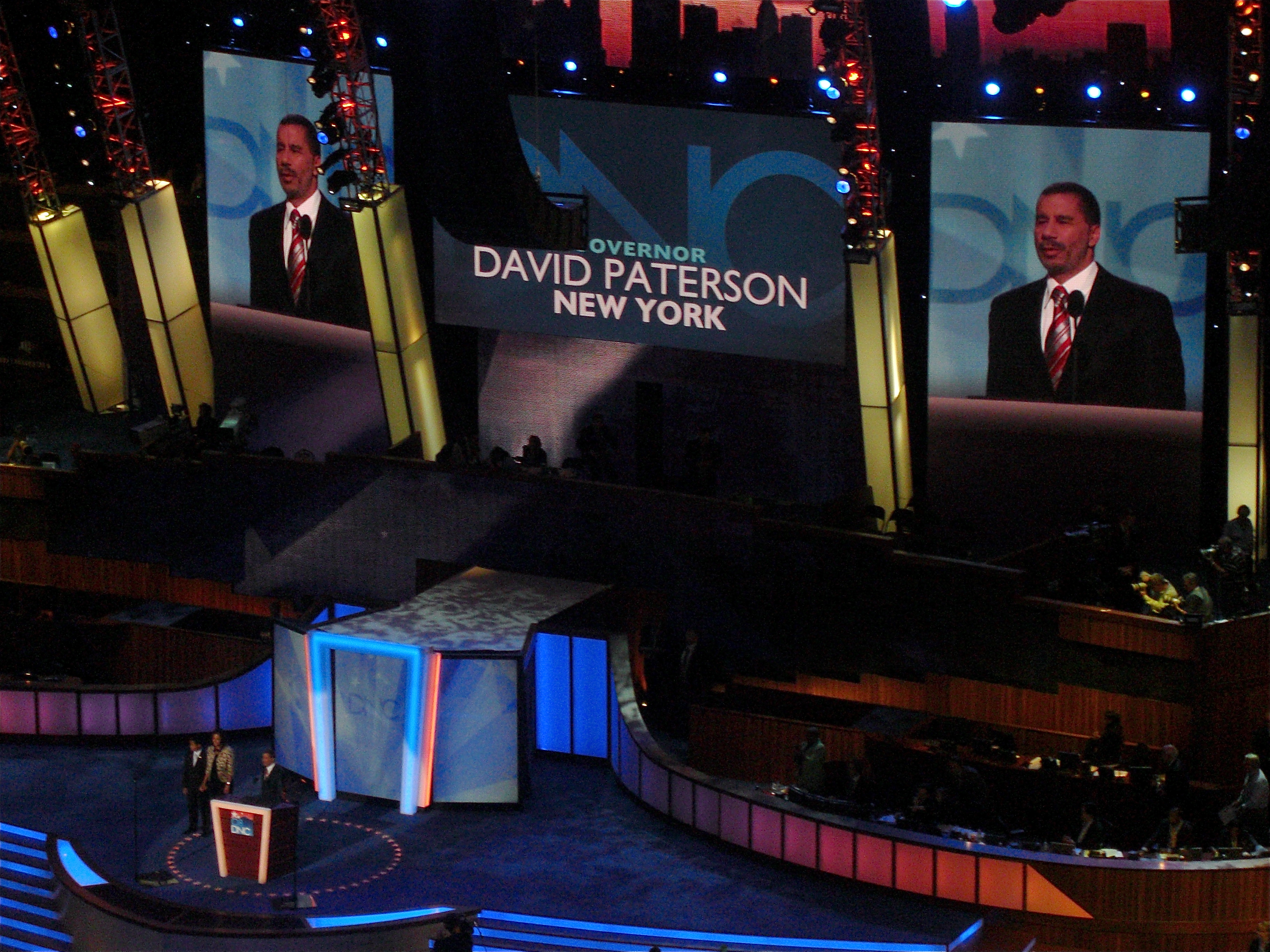 David Paterson speaks during the second day of the 2008 Democratic National Convention in Denver, Colorado, United States.